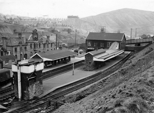 Bargoed Station. View southward, towards Caerphilly and Cardiff on the former Rhymney Railway. Behind the camera, the former Bargoed & Pant section of the former Brecon & Merthyr Railway joined from the Dowlais direction. This was closed on 5/8/63, the passenger service Newport - Brecon over that line having ceased on 31/12/62. Comparisons with the present-day Bargoed Station are remarkable for the changes due to abandonment of the Coal Industry.